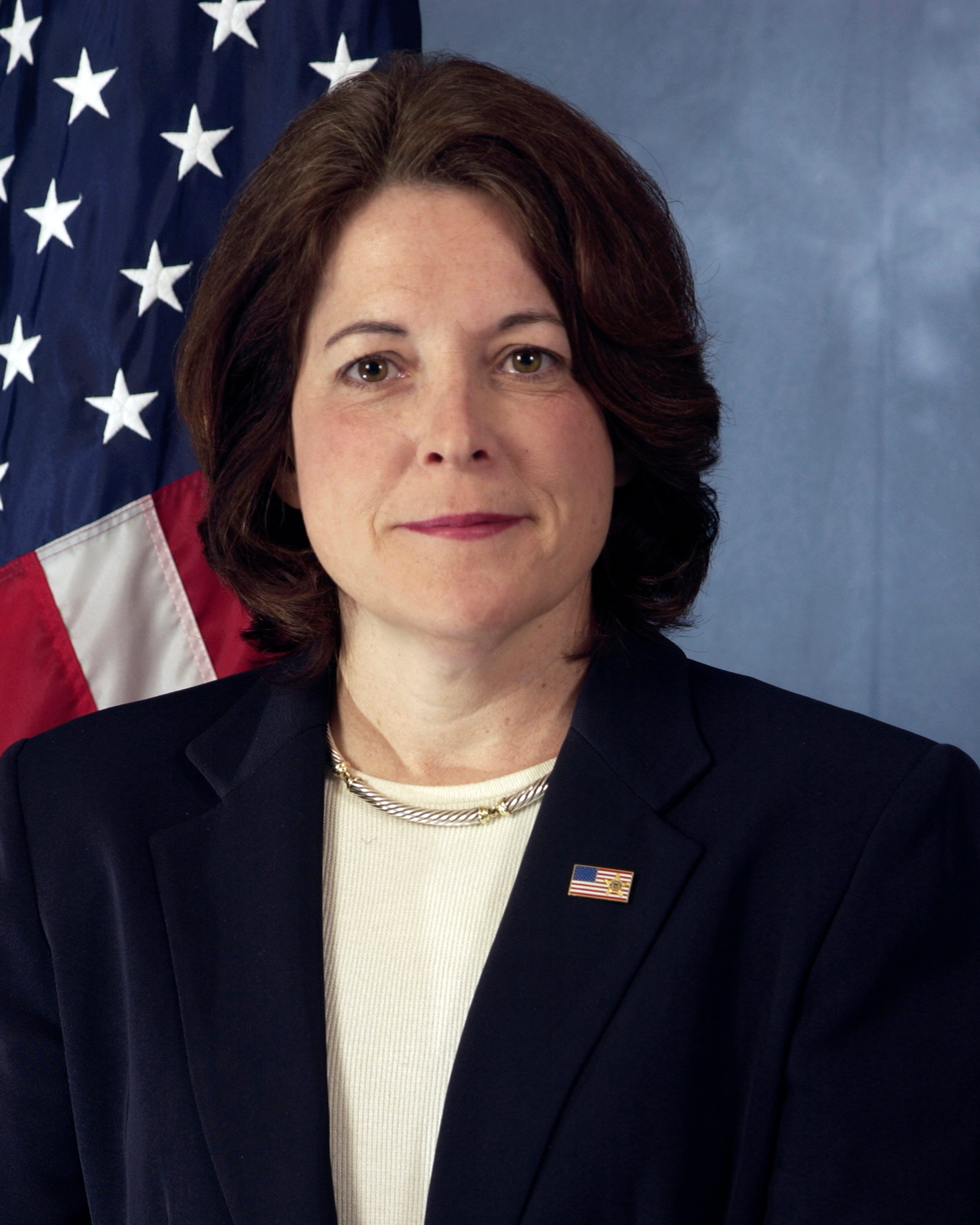 Julia Pierson, Director, United States Secret Service